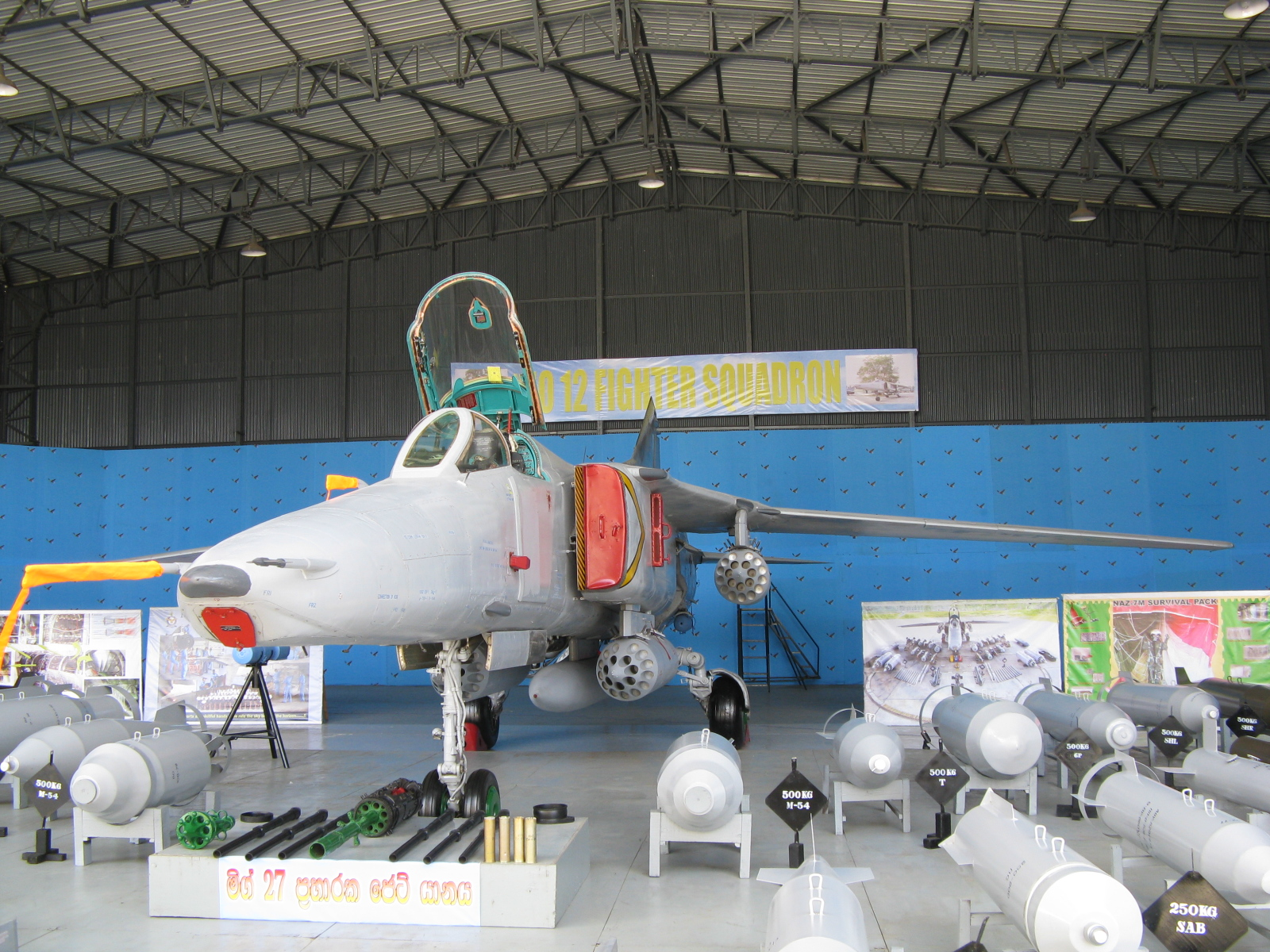 Sri Lanka Air Force Mikoyan-Gurevich MiG-27M Ground-attack Aircraft.